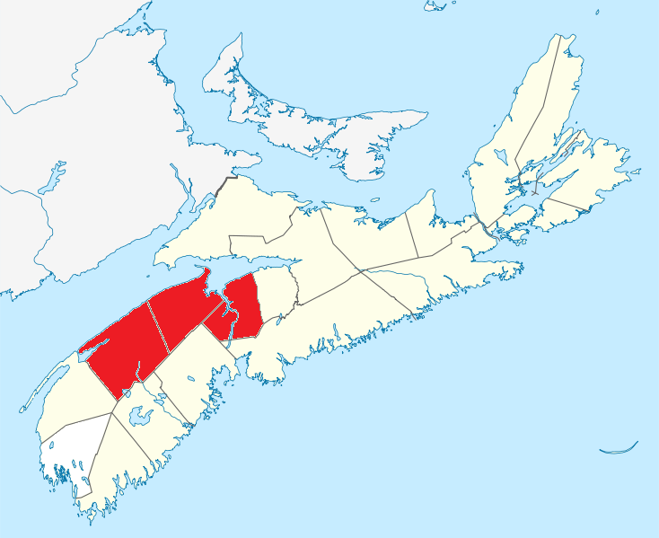 Map showing the coverage of the Annapolis Valley Regional School Board